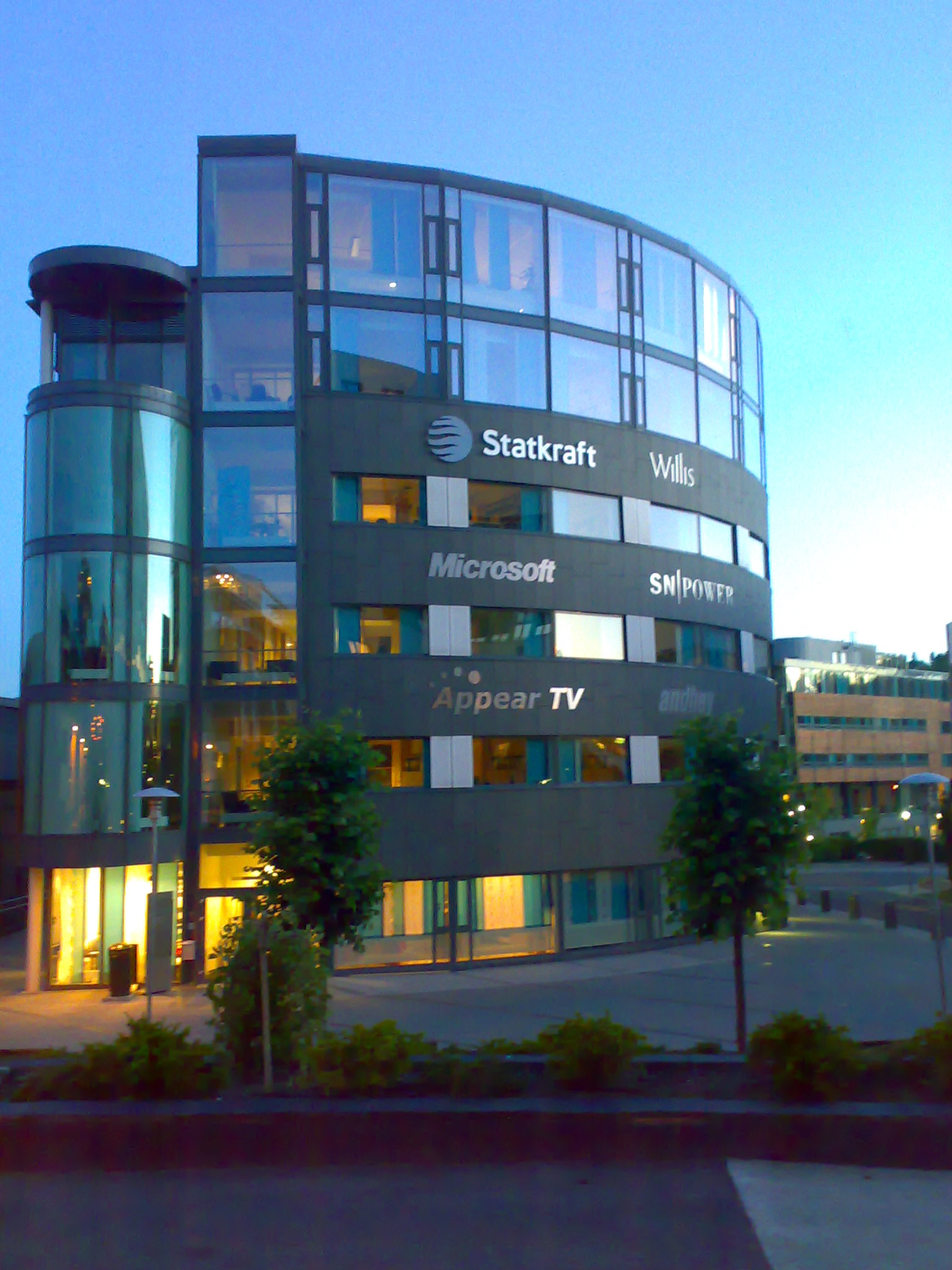 Lilleakerveien 6D in Oslo.